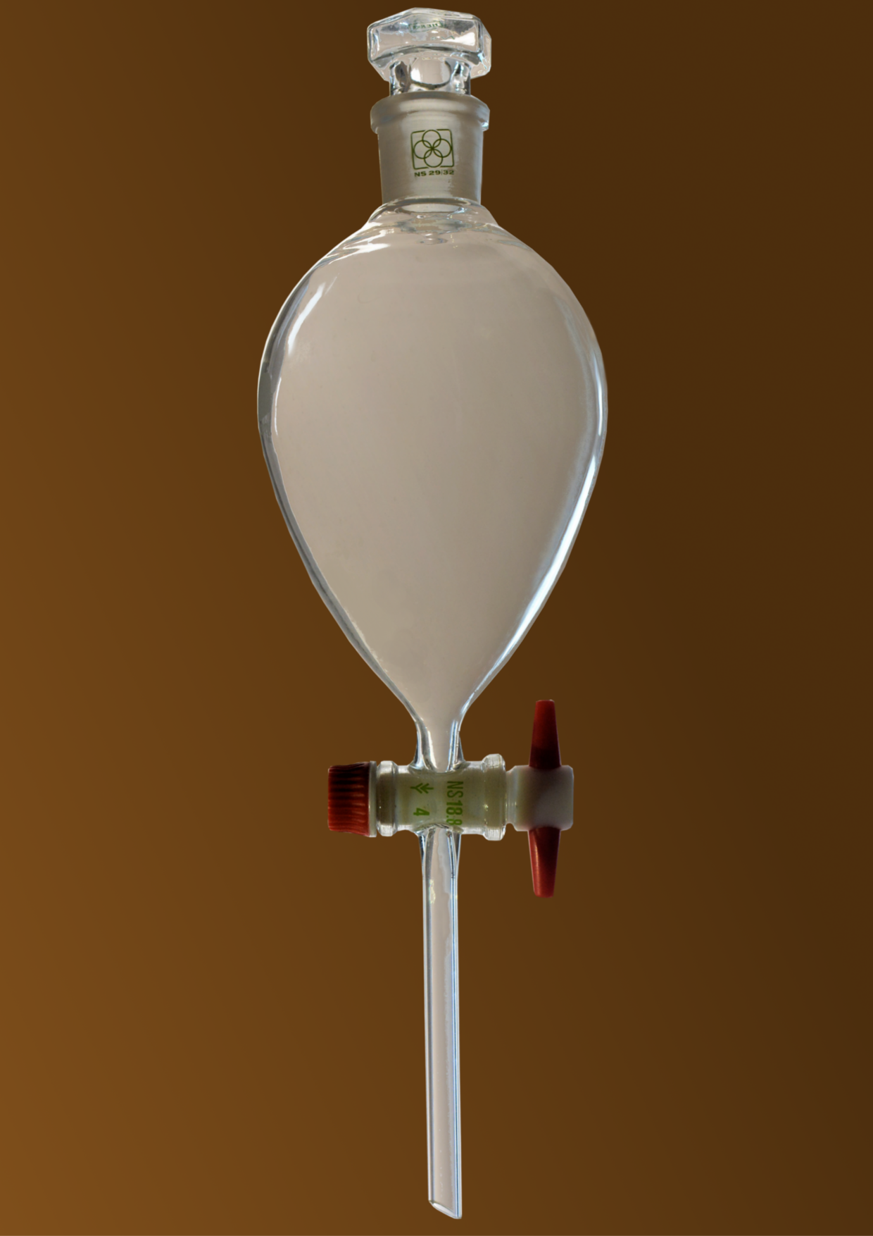 separatory funnel brown backround